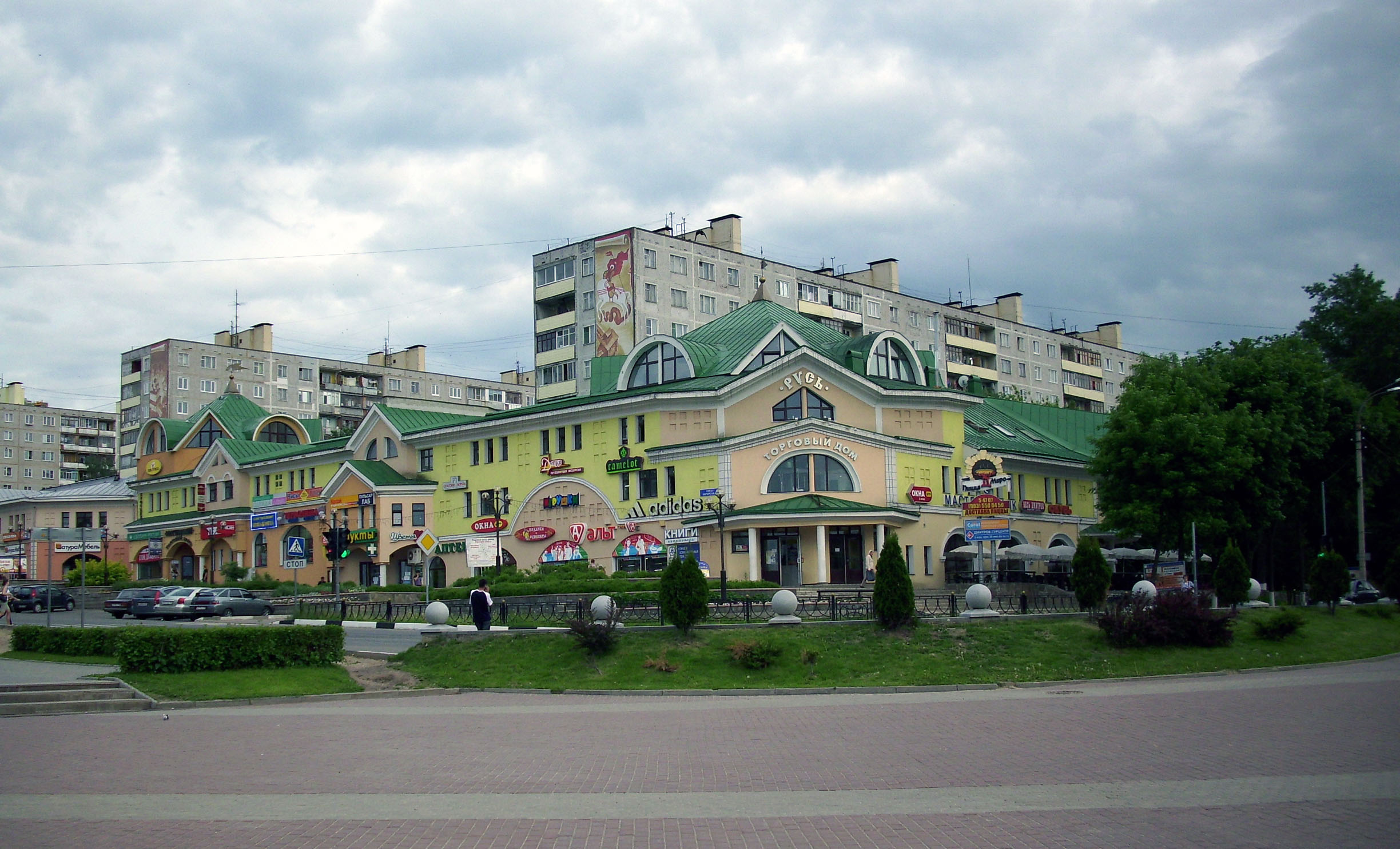 Trade centre "Rus'" in Dmitrov (Moscow oblast).